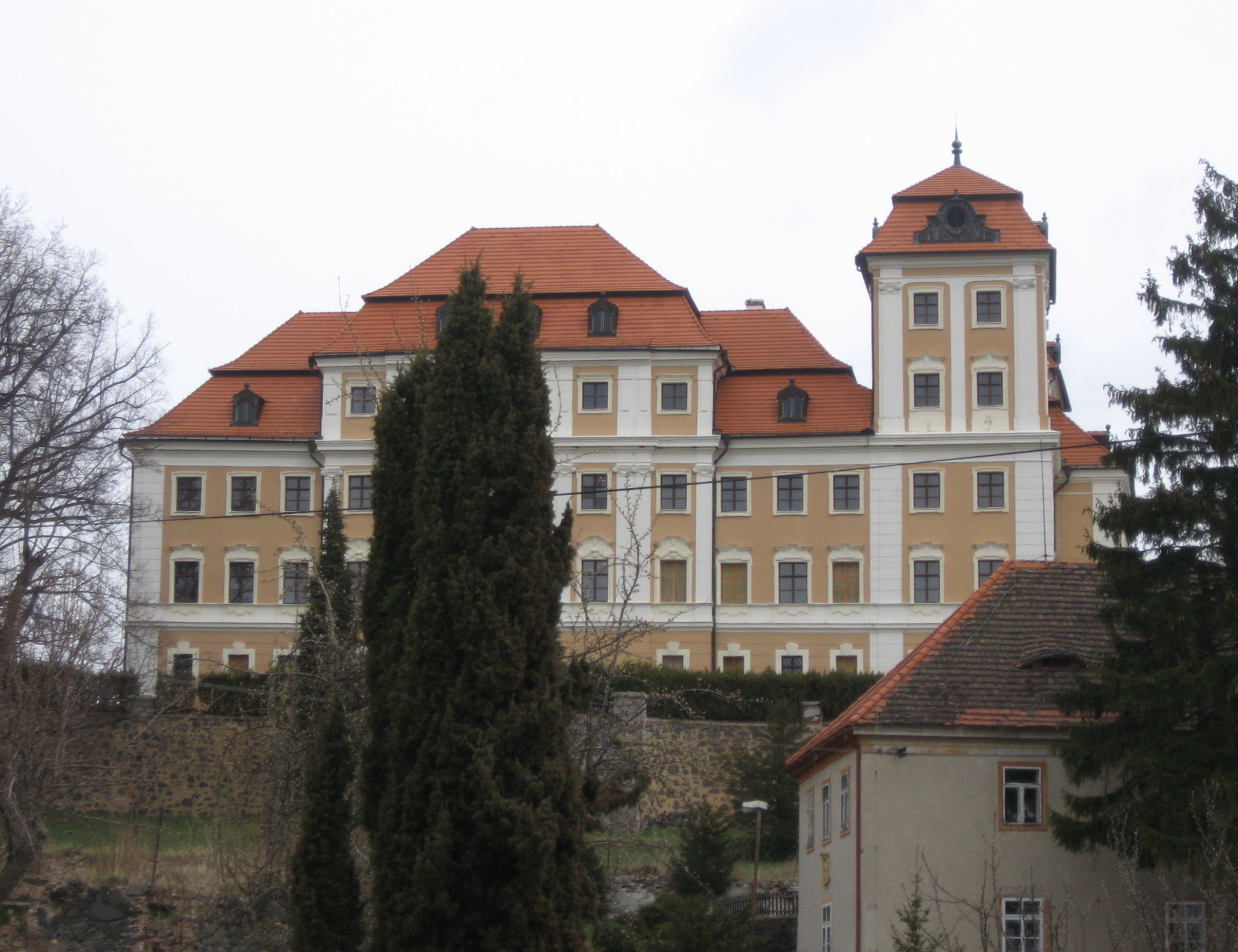 Chateau Valeč, (Karlovy Vary District, Czech Republic)